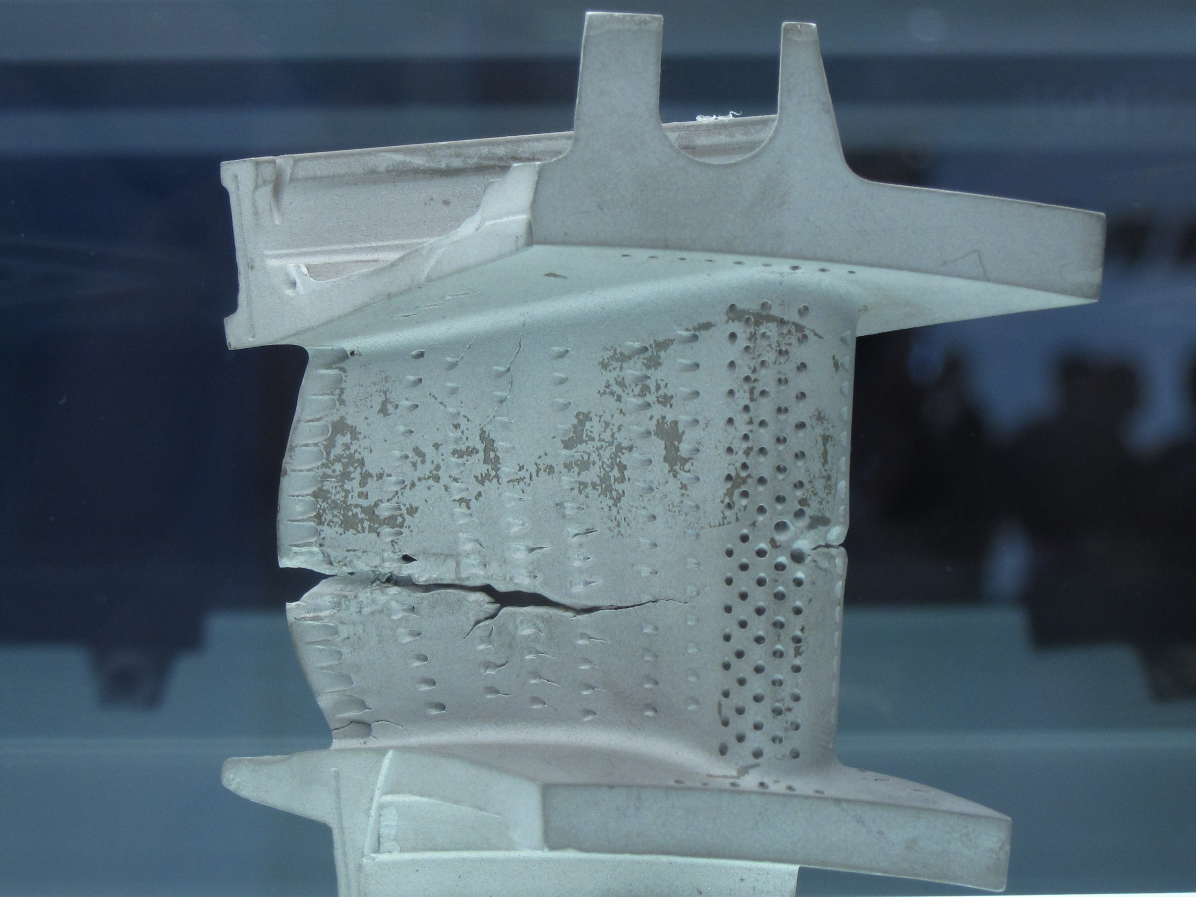 A nozzle guide vane seen after fluoride-ion cleaning [note that the fracture would disqualify the actual blade for re-use in an engine - this is a sample shown for demonstration purposes] This is one of ten blade samples showcasing the repair process developed by MTU engines to send damaged blades back into service. The blades were on display at the Paris Air Show 2013; they are high-pressure internally-cooled turbine nozzle guide vanes on the V2500 engine.